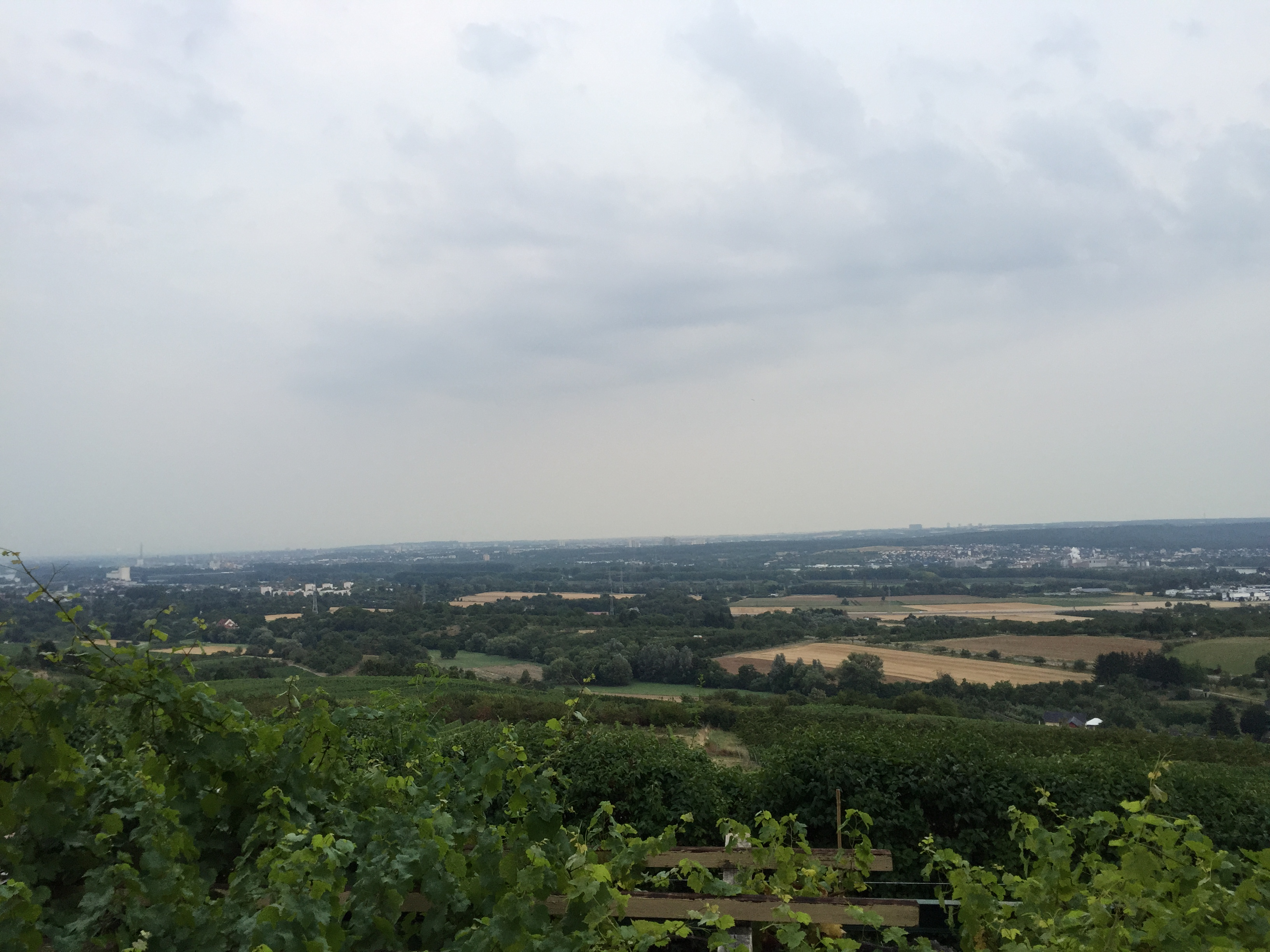 Blick vom Hof Nürnberg auf das Rheintal